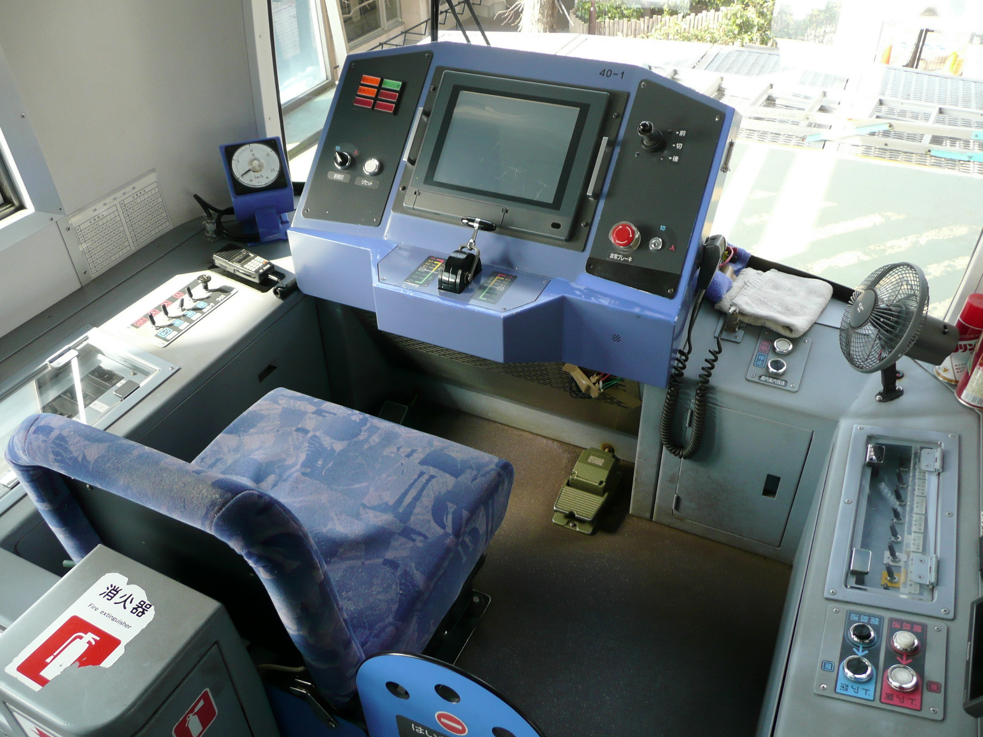 40 type cockpit,Ueno Zoo Monorail,Tokyo Metropolitan Bureau of Transportation.